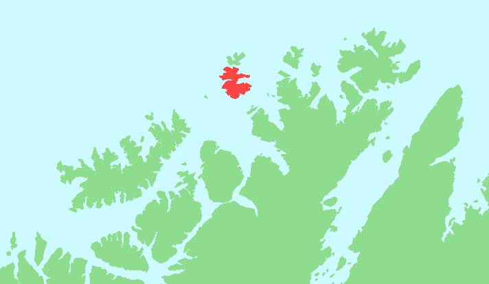 Locator map of Rolvsøya, Finnmark, Norway